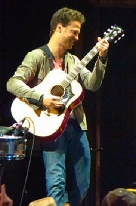 Atlanta Hard Rock Cafe (2012) Guarini playing with fellow musicians following play performance of 'Ghost Brothers'.